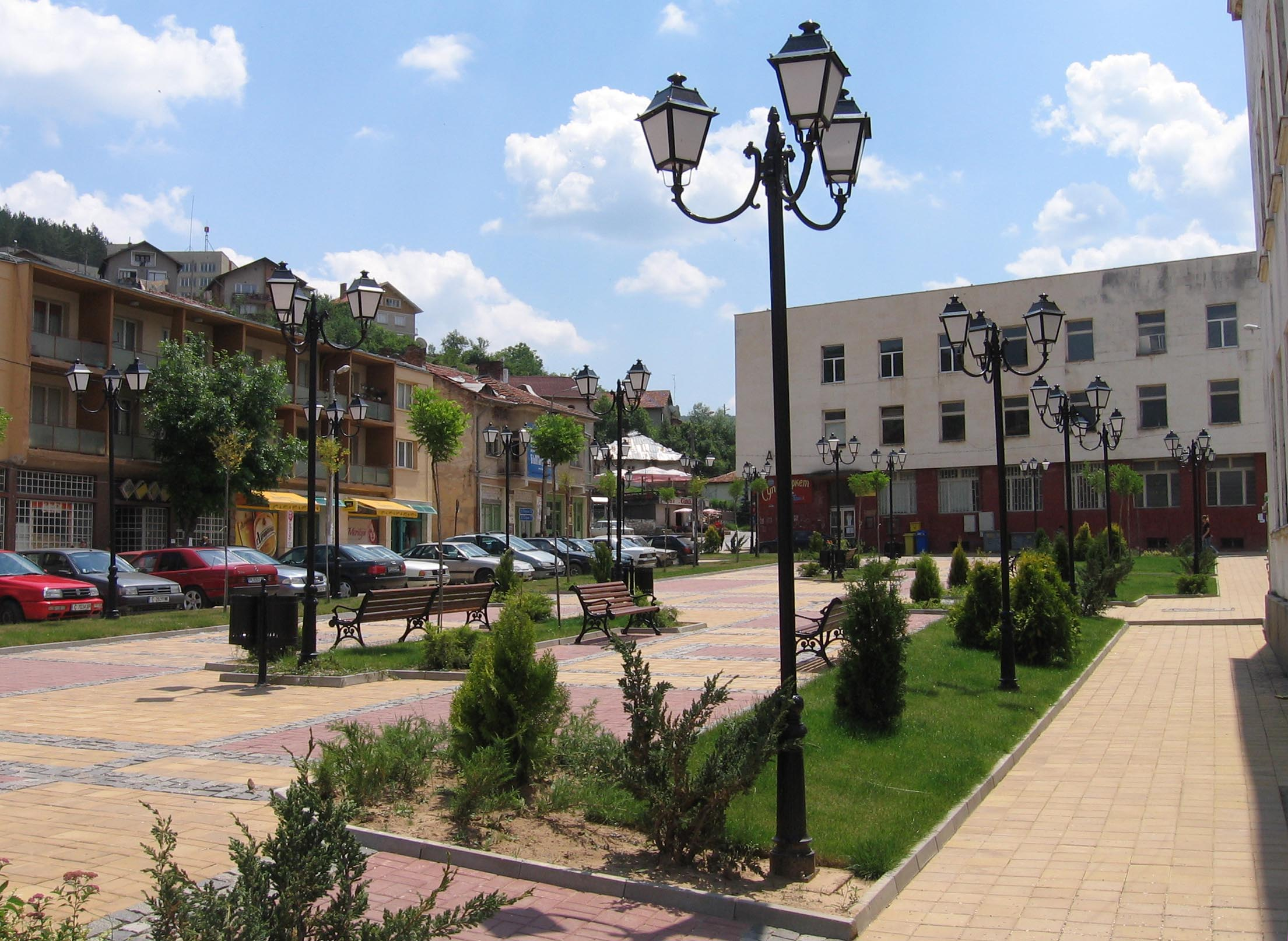 View from Tran downtown, Bulgaria